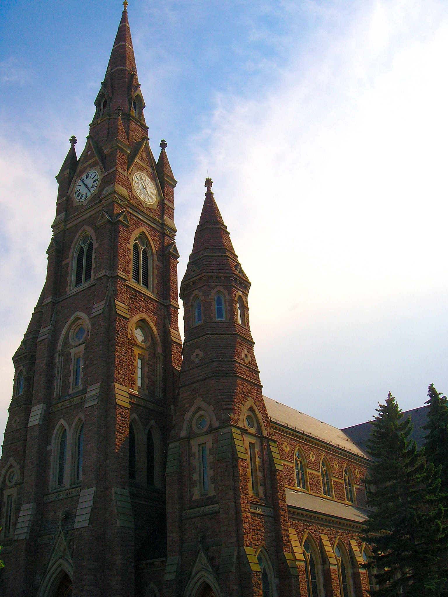 This photograph of St Peter Cathedral in Erie, Pennsylvania was taken on 4 June 2007 by Pat Noble (self).